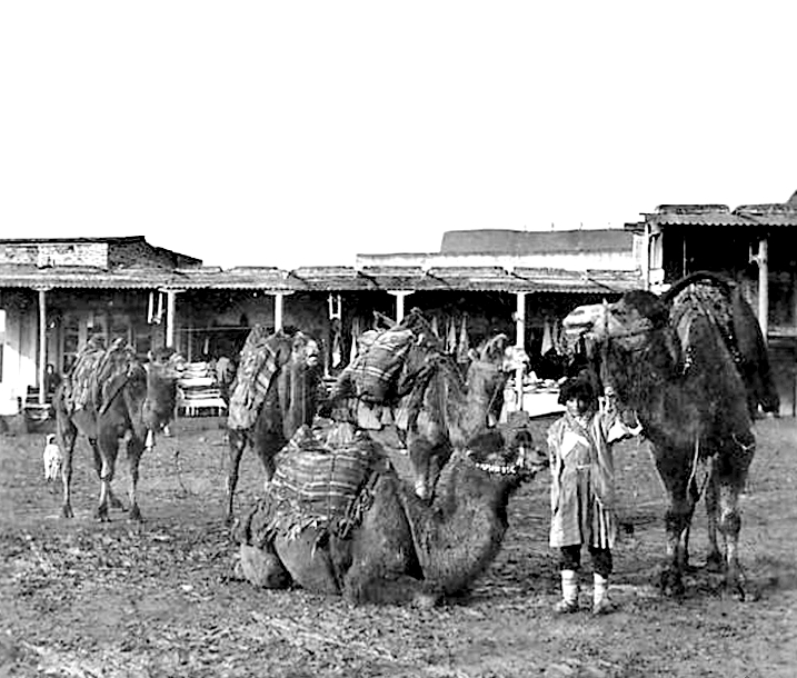 Gurji caravanserai